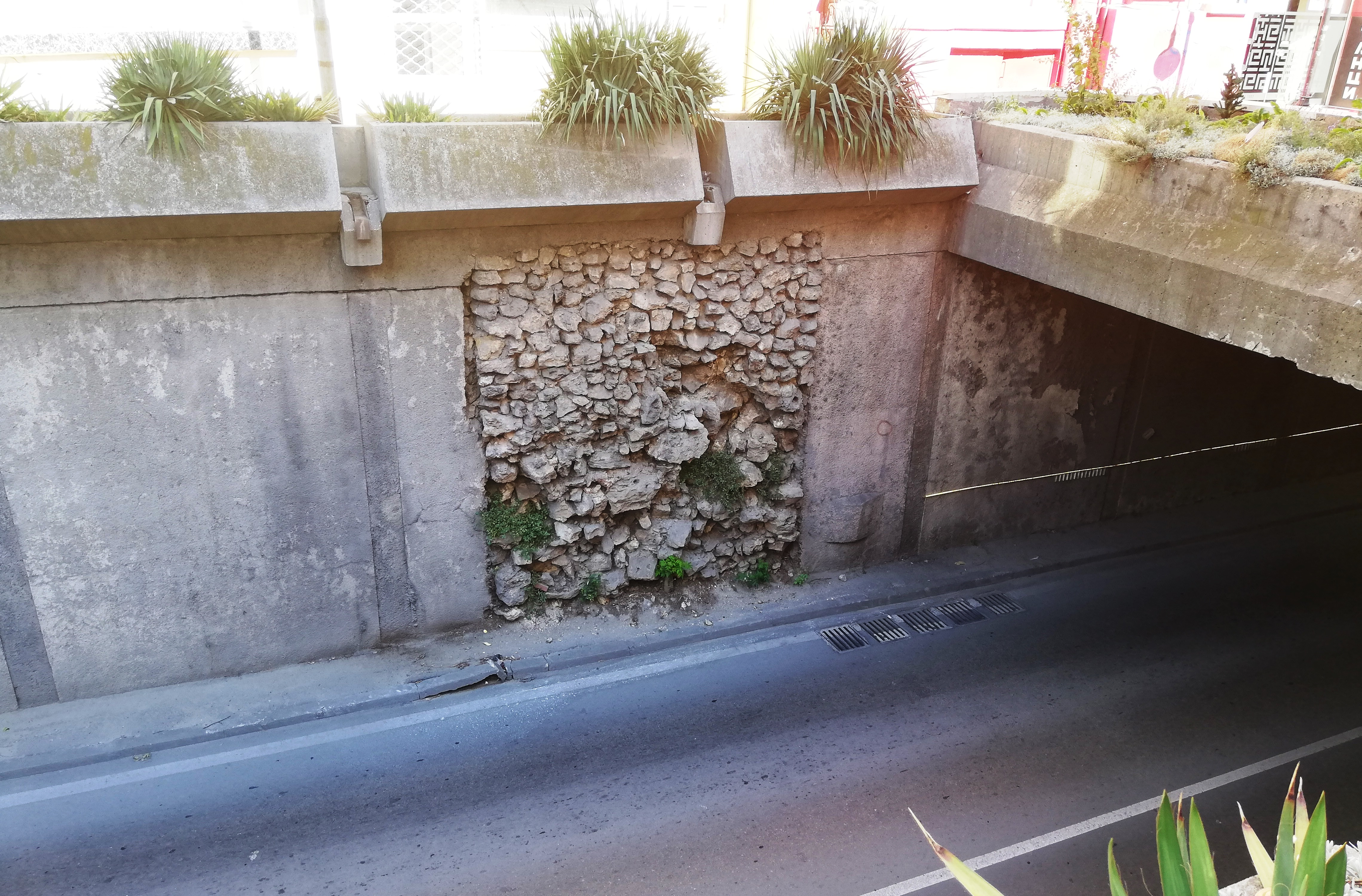 Antique Roman fortifications in Varna, Bulgaria